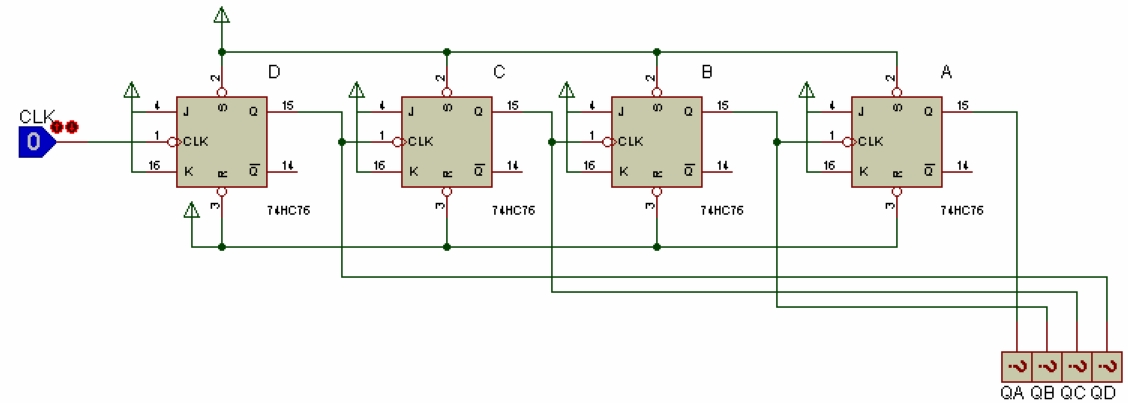 Counter